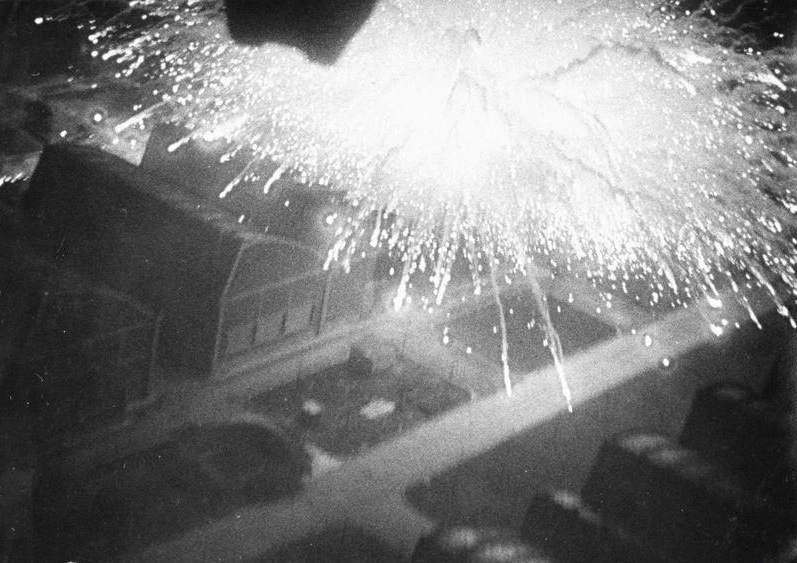 A target marker dropped from the Lancaster of Leonard Cheshire detonates over the Gnome-Rhone aero-engine factory at Limoges, France, February 1944